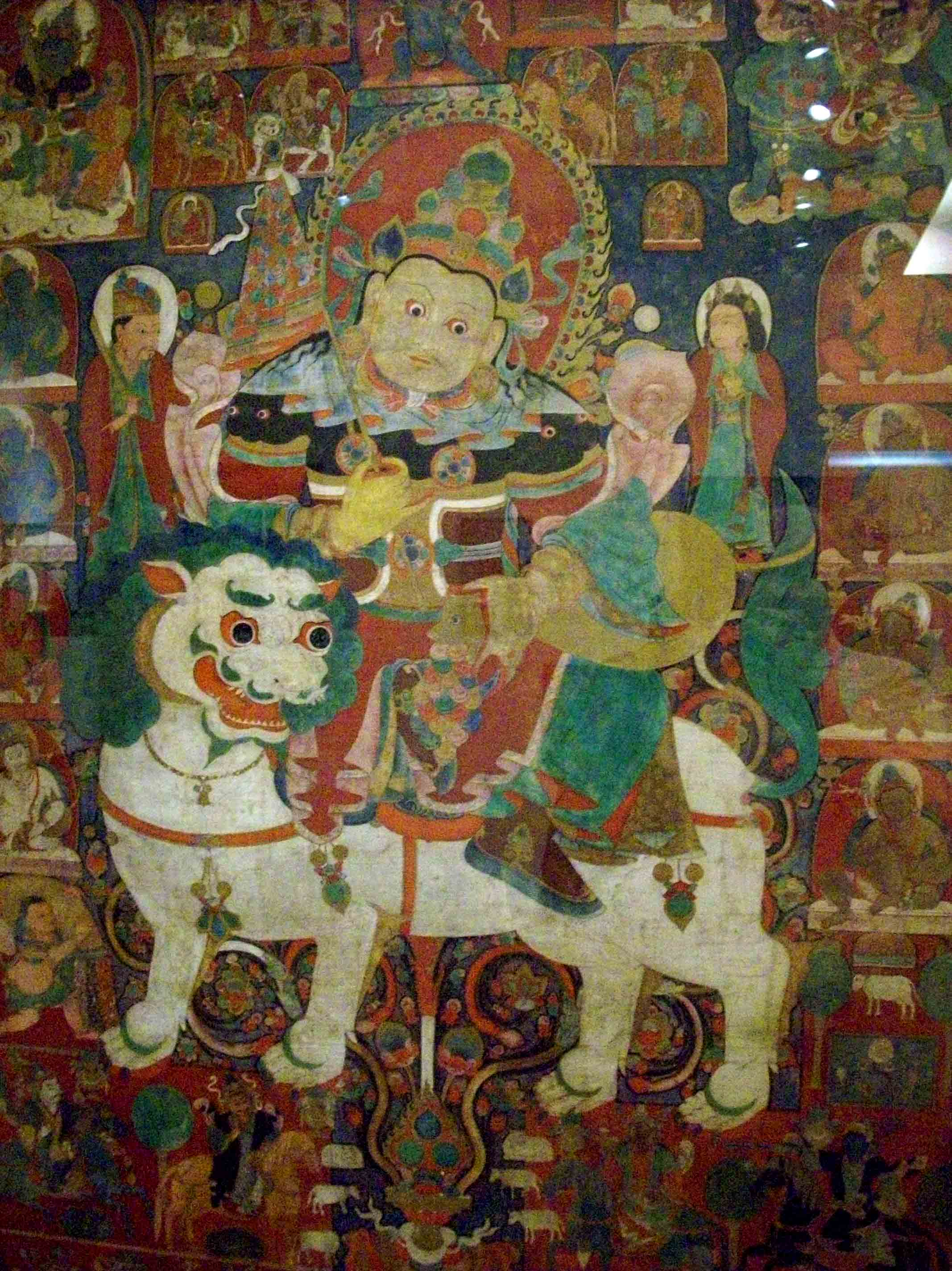 Detail of a thangka depicting Vaiśravana riding a Snow Lion, dated aprox XVth C. , in the Musée Guimet, Paris.